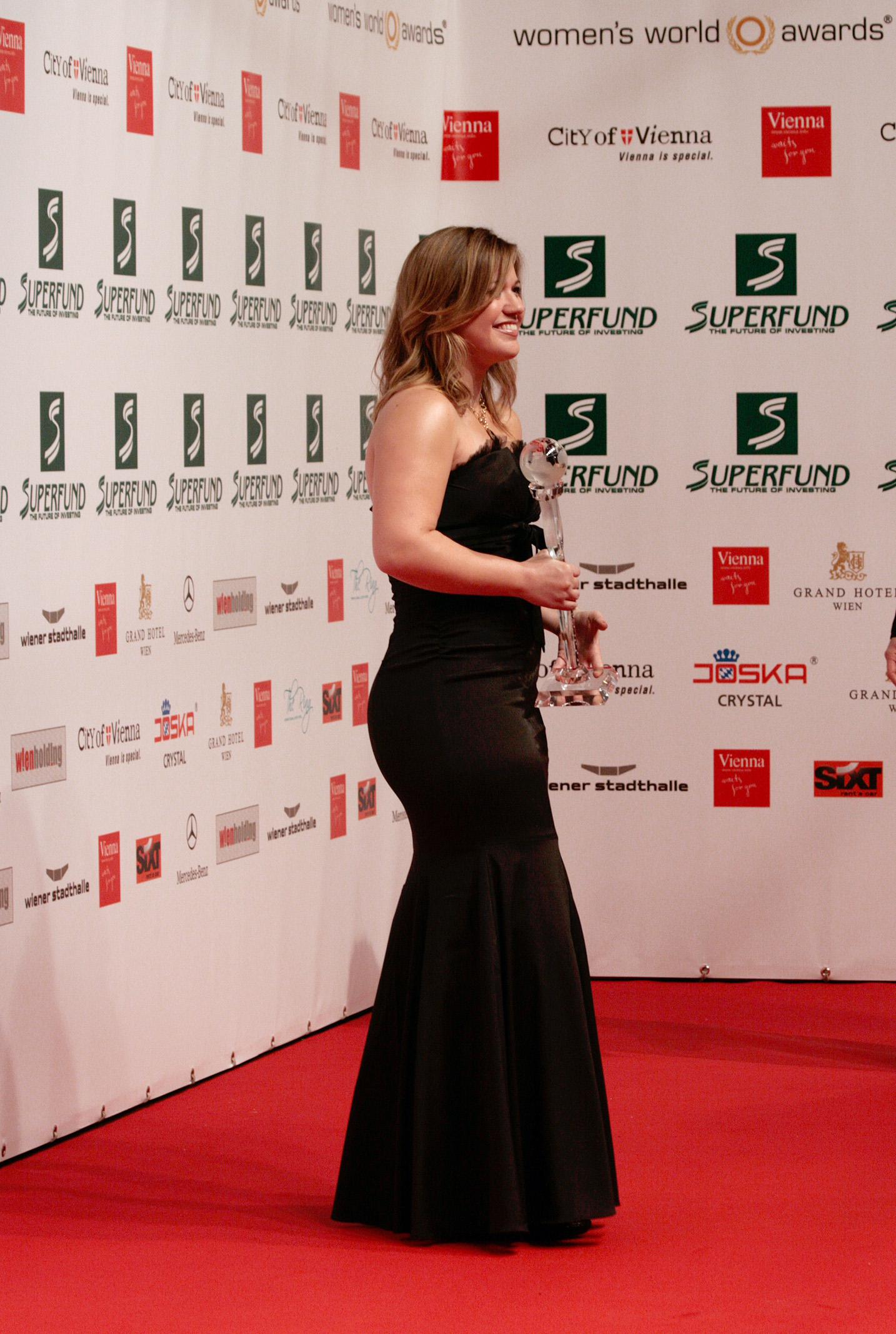 Kelly Clarkson at the Women's World Award 2009 (Wiener Stadthalle, Vienna, Austria).